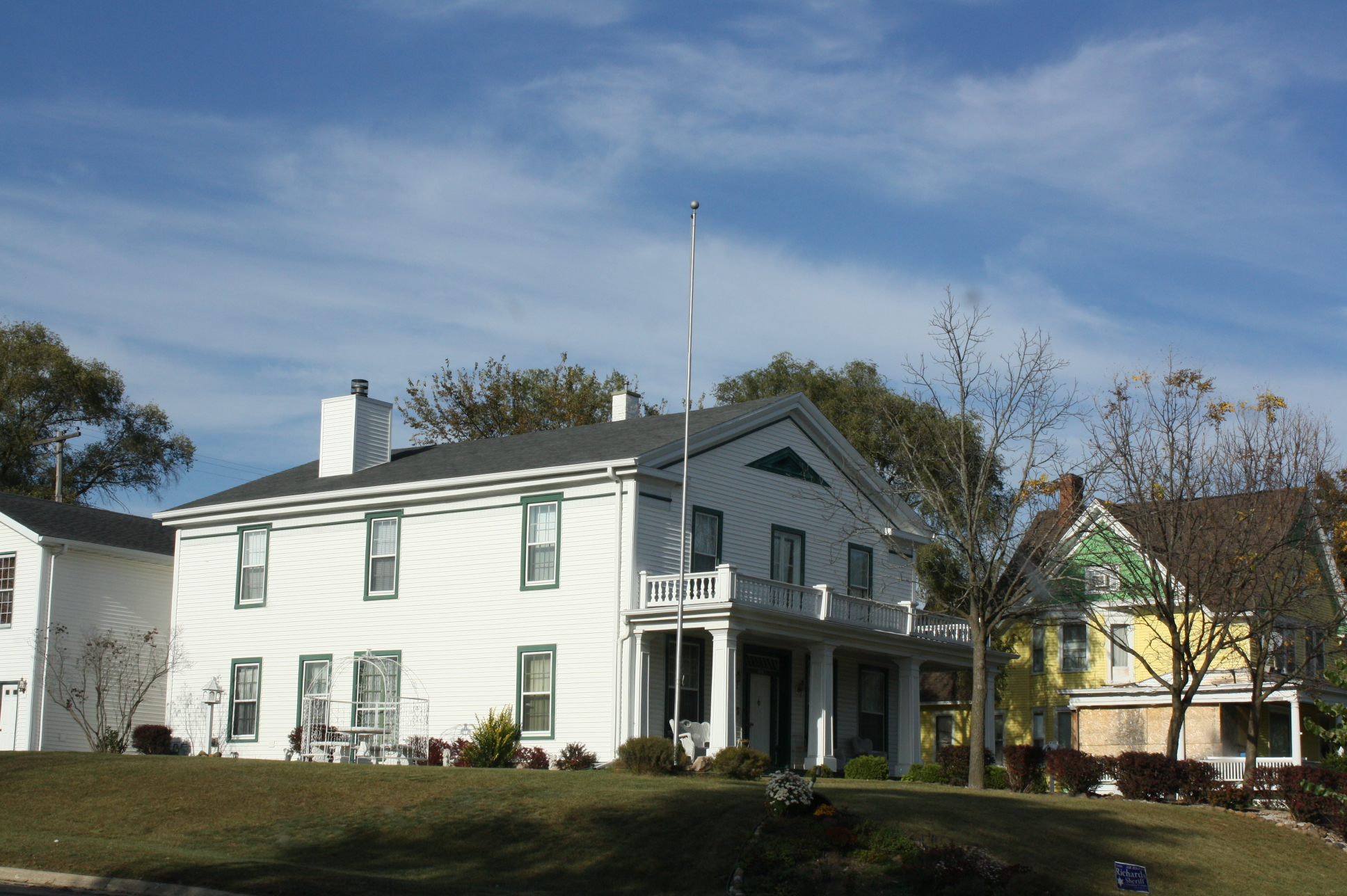 The Henry Merrell House in Portage, Wisconsin along Wisconsin Highway 56.